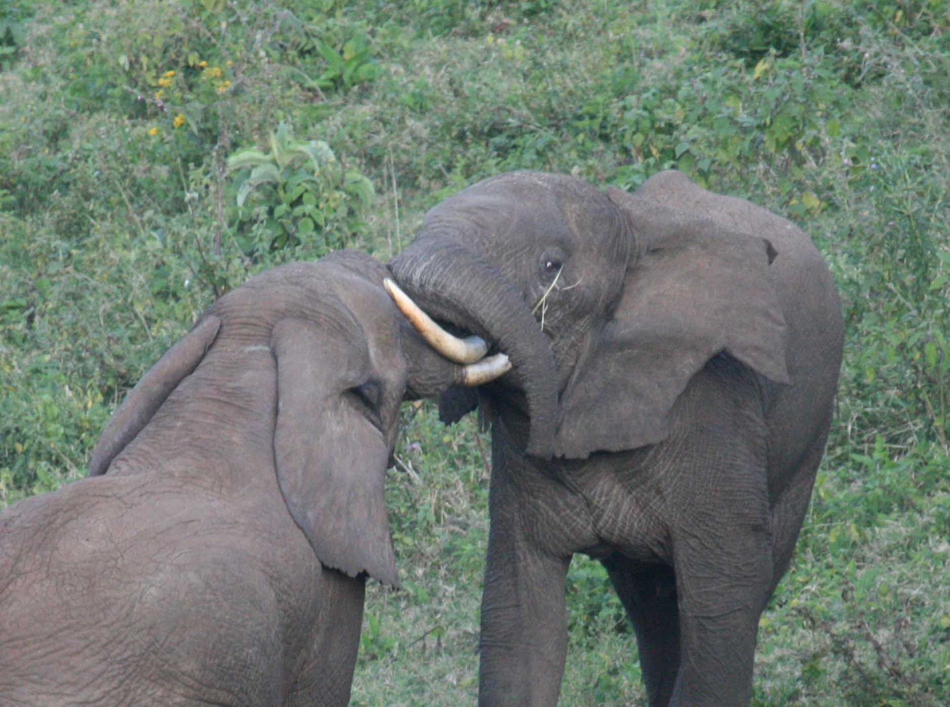 Two African bull elephants mock fighting. Ngorongoro Crater Rim, Tanzania. Photo by Lee R. Berger. mean or nice...